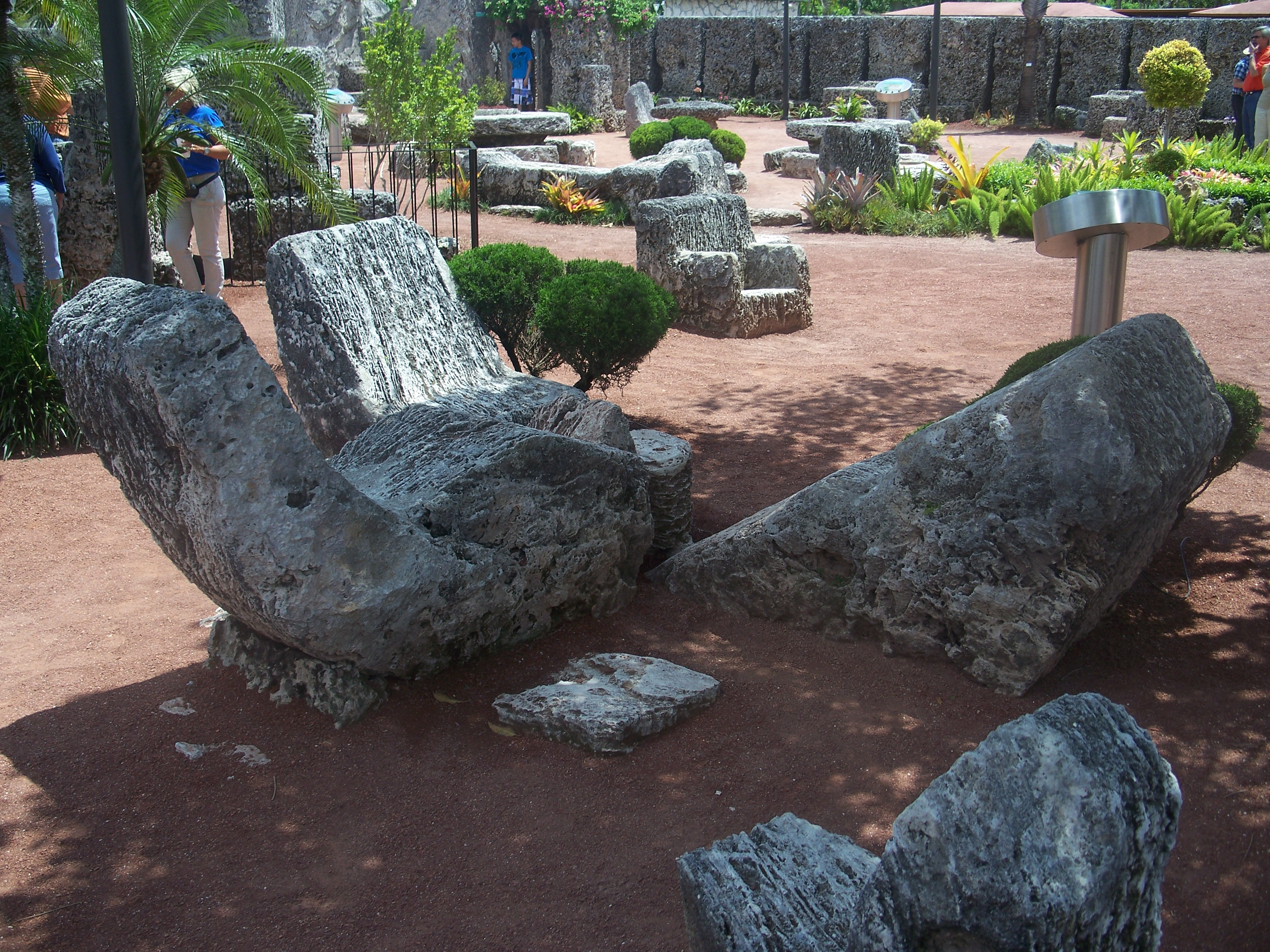 Homestead, Florida: Coral Castle: Reading chairs